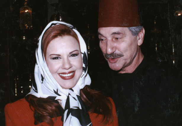 A scene from a syrian drama including Salma el-Masri and Talhat Hamdi